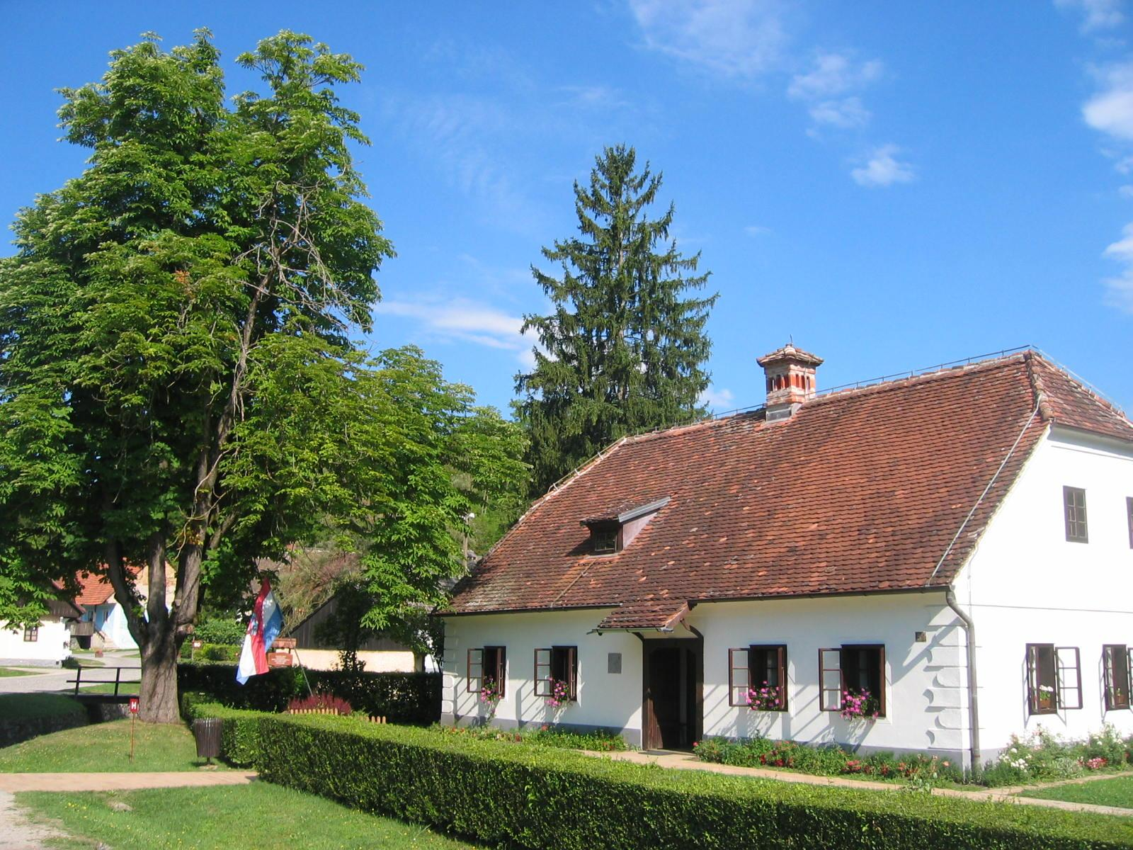 Birthhouse of Josip Broz Tito at Kumrovec, Croatian village. photo:Ziga 07:35, 13 August 2006 (UTC)